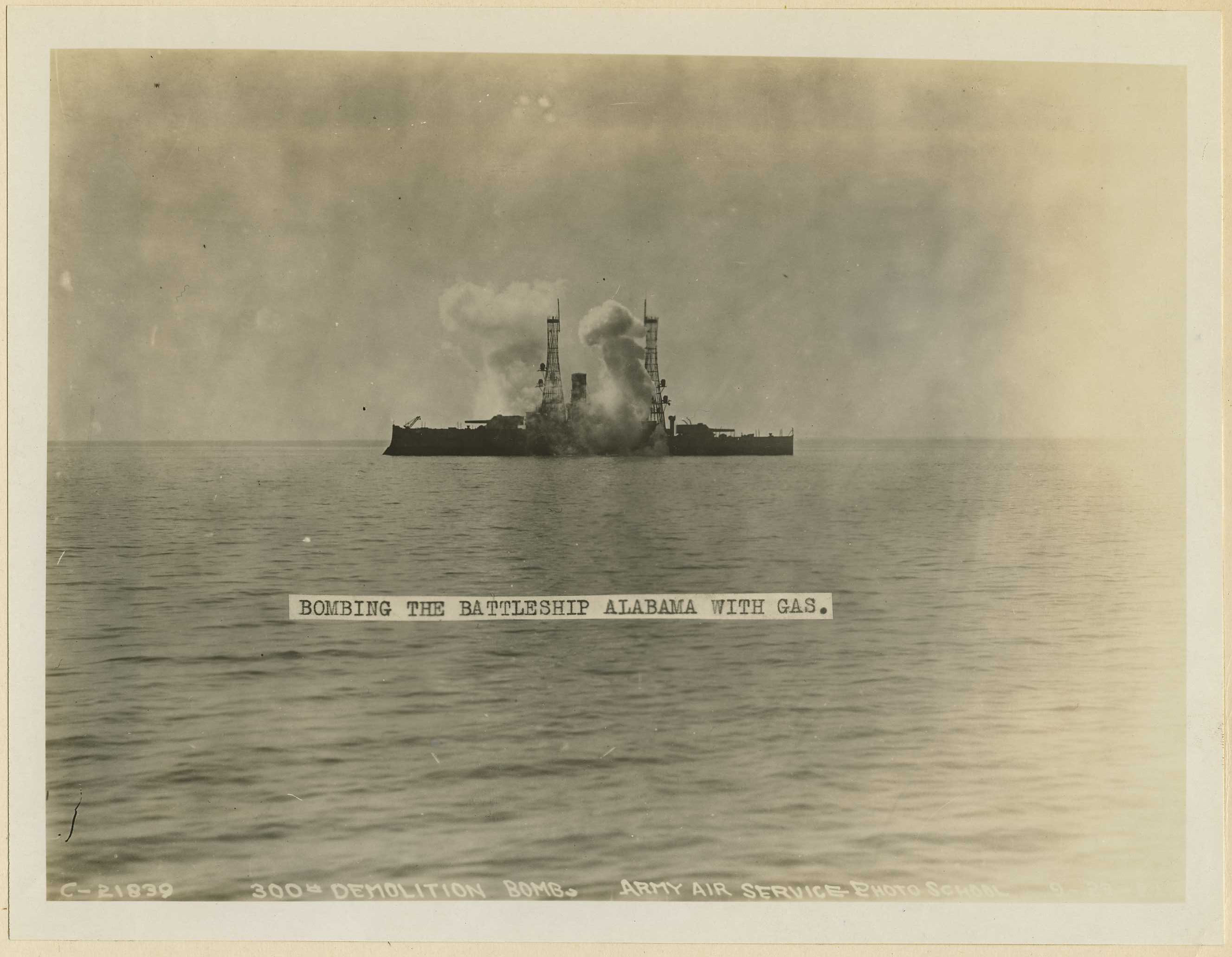 Gas and bombing. "Bombing the battleship Alabama with gas. 300 pound demolition bomb. Army Air Service Photo ; School. 09/23/1921.[Gases, Asphyxiating and poisonous. Chemical warfare.]